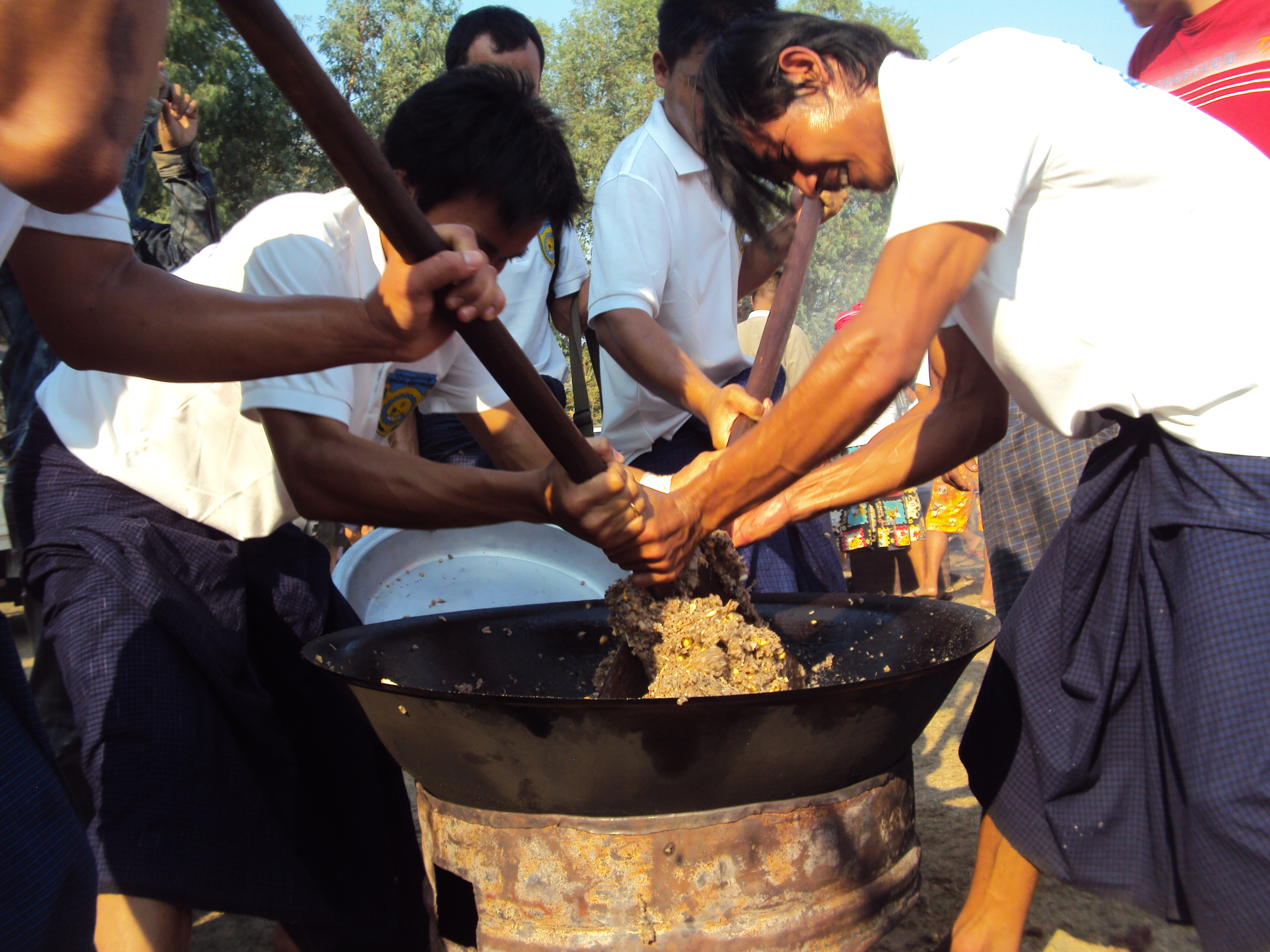 Making Traditional Food Hta Ma Nae. Sweaty teammates are mashing Hta Ma Nae. Hta Ma Nae Competitions of Mon State Departments, Yamanya Stadium, Mawlamyine မြန်မာဘာသာ: မြန်မာ့ရိုးရာ ထမနဲ ထိုးပွဲ၊ ချွေးရွှဲရွှဲနှင့် ထမနဲထိုးနေကြသော အသင်းသားများ၊ မွန်ပြည်နယ် ဌာနဆိုင်ရာပေါင်းစုံ မြန်မာ့ရိုးရာ ထမနဲ ပြိုင်ပွဲ၊ ရာမညအားကစားကွင်း၊ မော်လမြိုင်